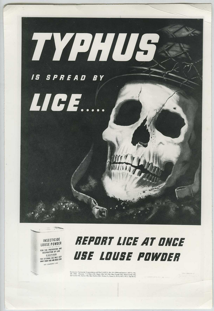 "Typhus is spread by lice... report lice at once, use louse powder." [DDT] ; World War 2.